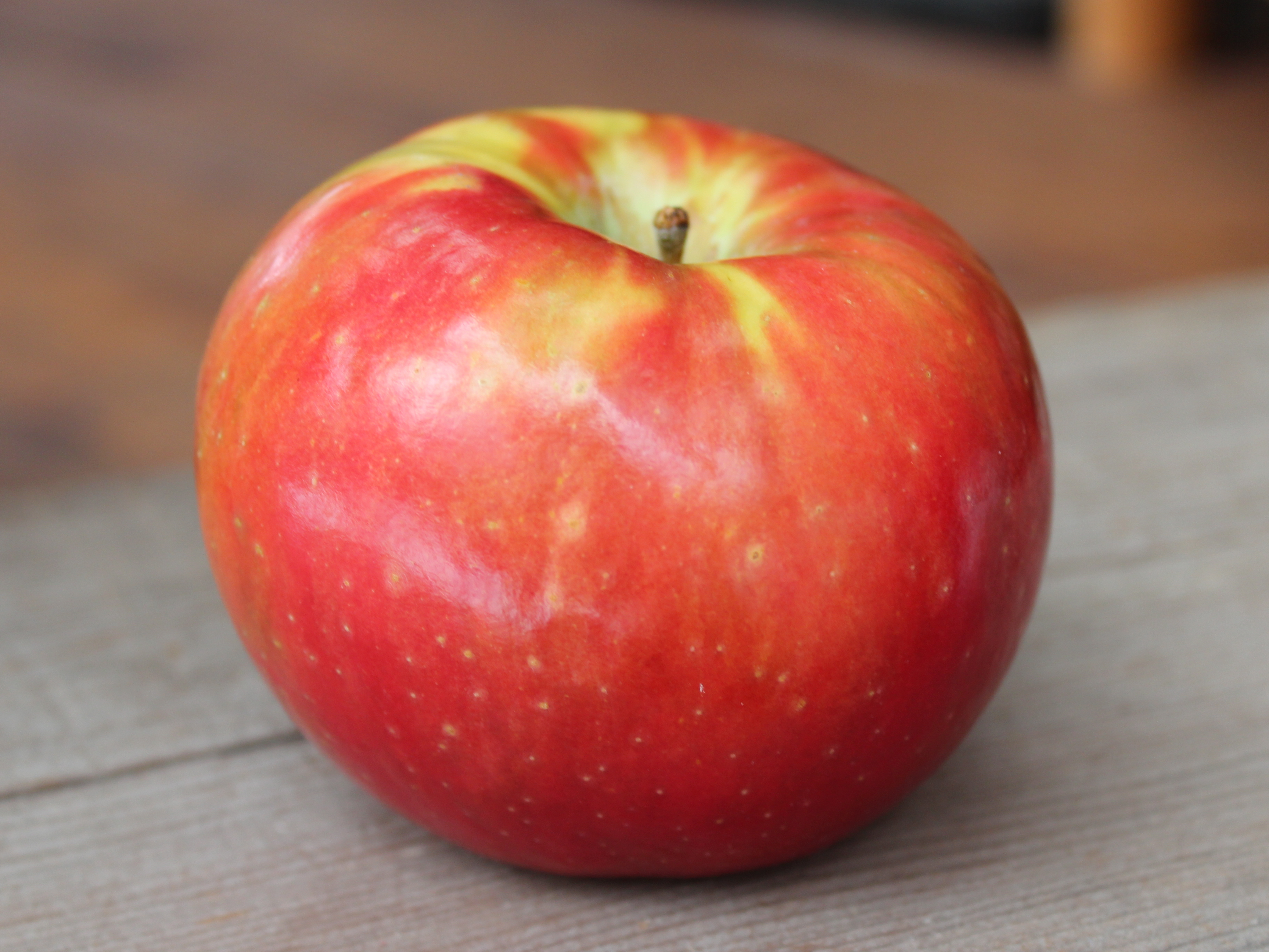 The SugarBee apple was originally created in Minnesota to be a cold-weather hardy crop and has since been cultivated in Washington State.